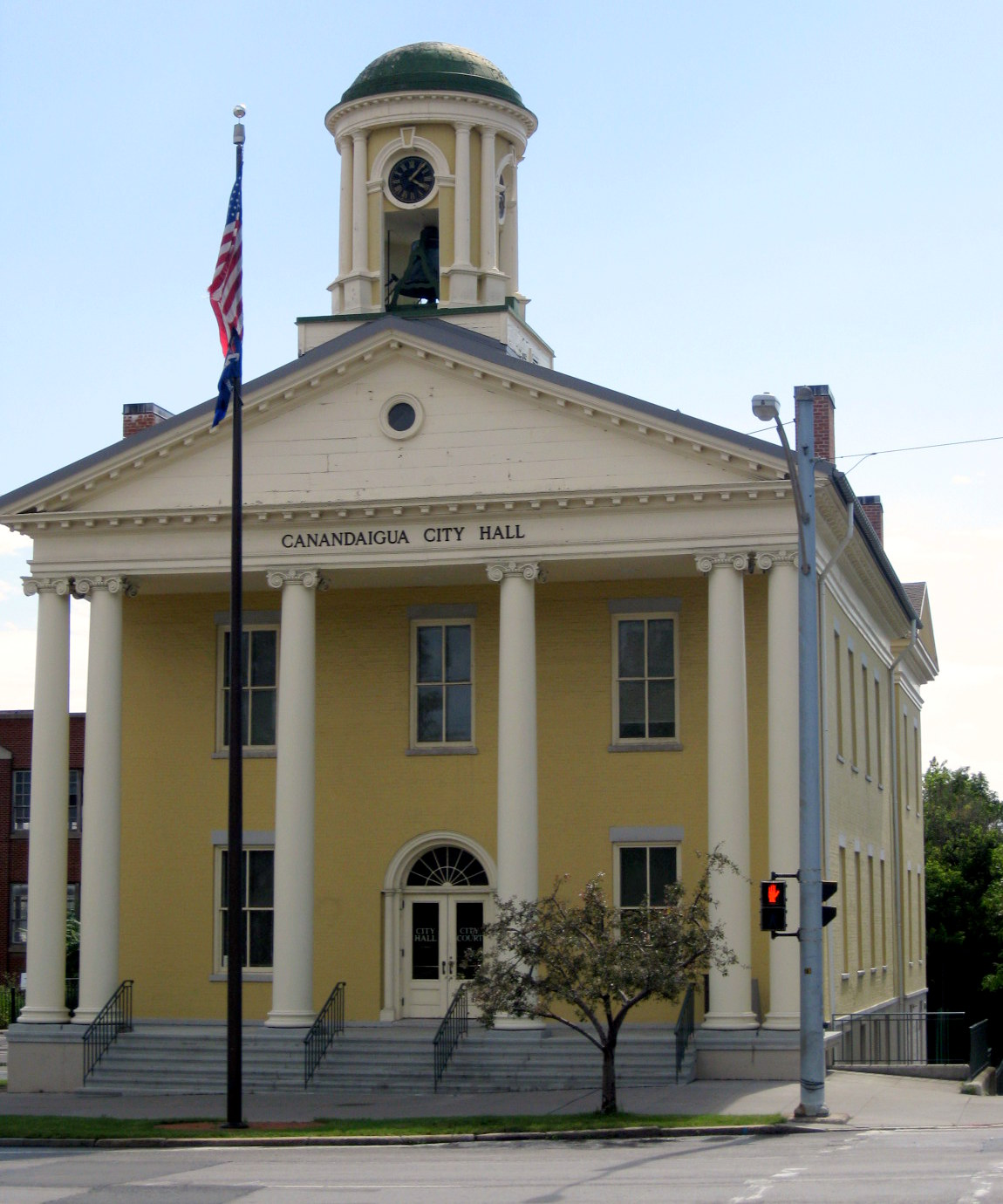 Canandaigua City Hall, Upstate New York.